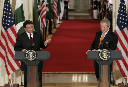 President George W. Bush, of the United States, listens as President Pervez Musharraf, of the Islamic Republic of Pakistan, responds to a question Friday, September 22, 2006 during a joint press availability at the White House.